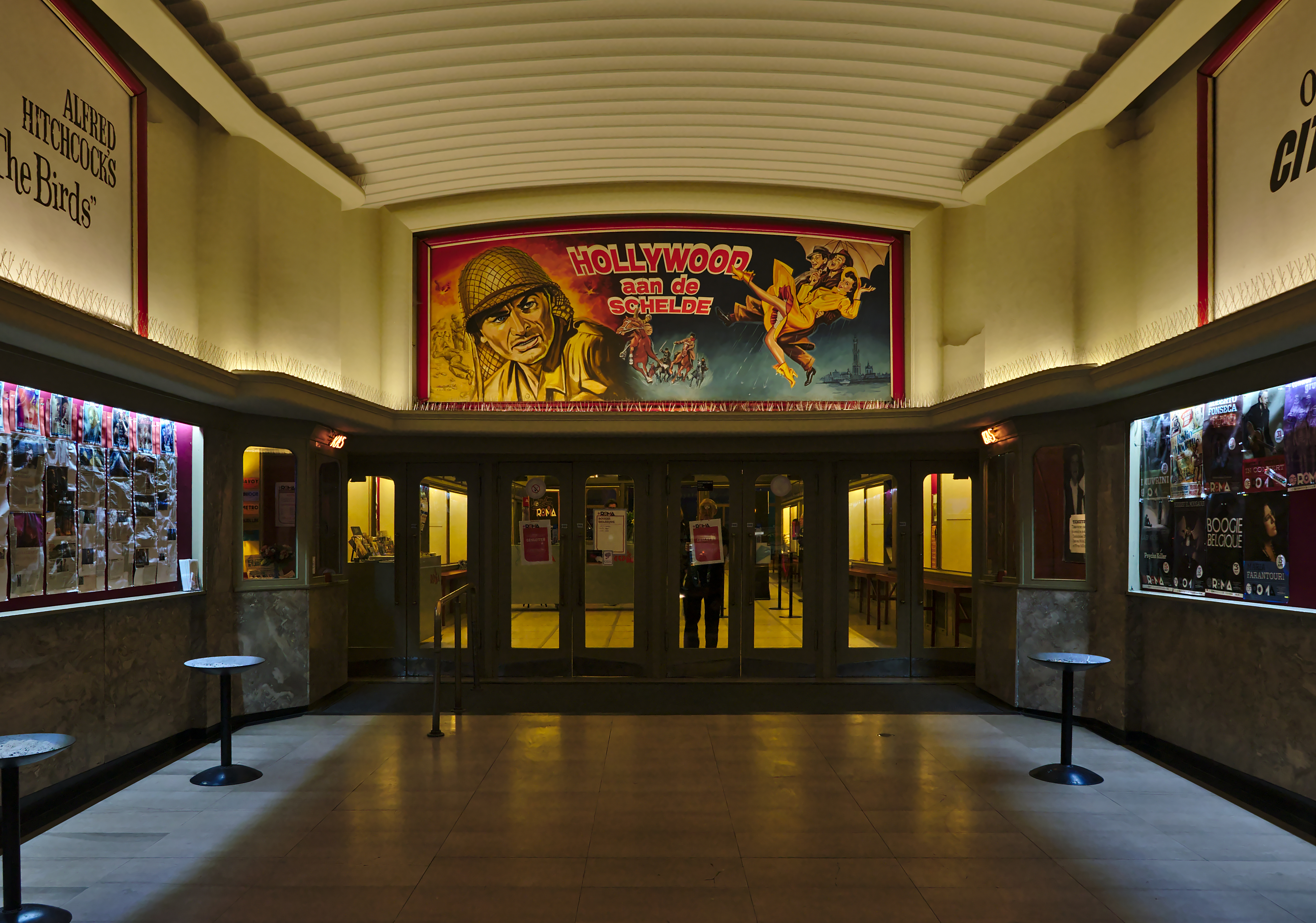 De Roma entrance hall (Borgerhout, Belgium) This photo of immovable heritage has been taken in the Flemish Region